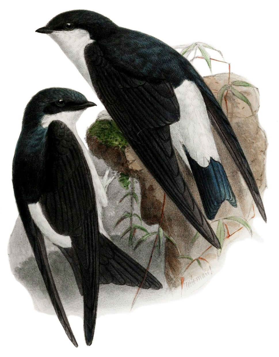 above: « Chelidon blakistoni » = Delichon dasypus (Asian House Martin) below: « Chelidon whitelyi » = Delichon urbicum lagopodum (Subspecies of Common House Martin) The illustration shows two perched swallow-like birds with black upperparts and white rumps and underparts. The bird higher and to the right has a greyish throat and squarer tail. The upper bird is an Asian House Martin and the lower bird is a Common House Martin.